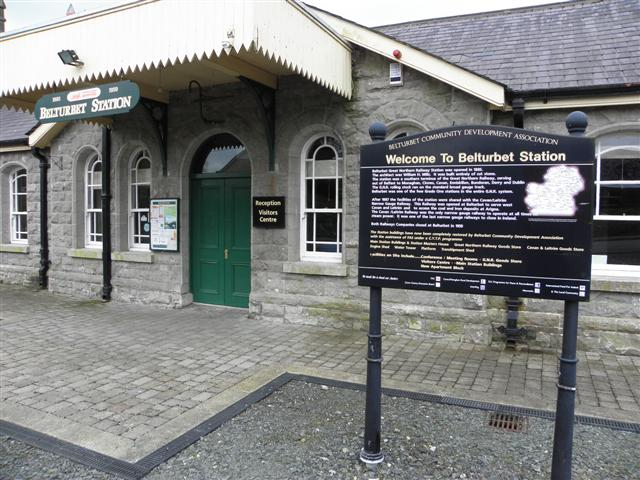 "Welcome to Belturbet Station". Pictured at the former railway station